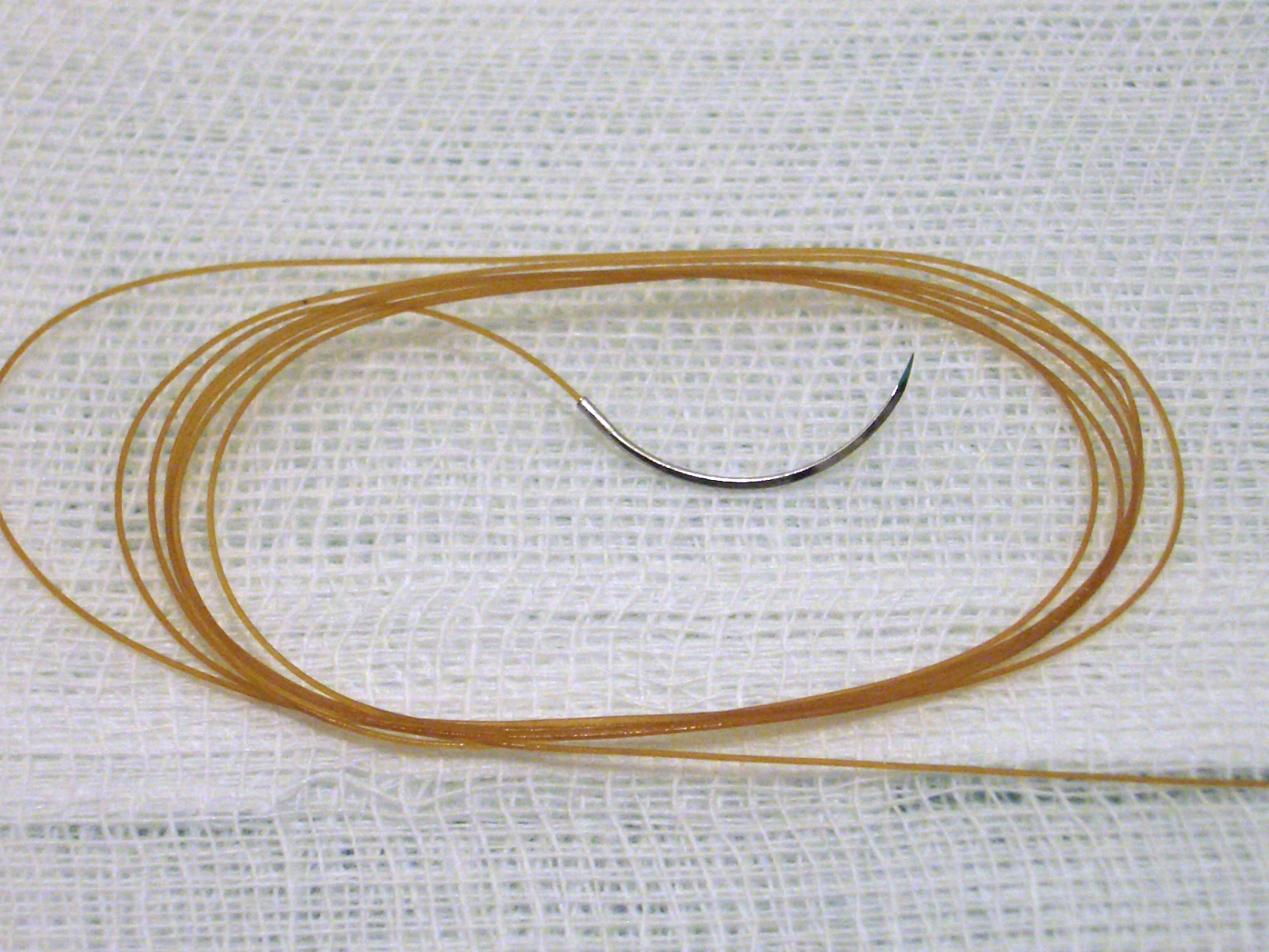 Catgut or gut suture is an absorbable suture usually manufactured from the intestine of sheep or goat. Catgut suture are composed of highly purified connective tissue derived from either beef or sheep intestines. The membrane is chemically treated and slender strands are woven together to form a suture. The grinding process creates a strand of uniform diameter. The suture strand is then further polished to achieve maximum smoothness, for reliability and strength. Catgut suture are available in the form of plain catgut or chromic catgut.